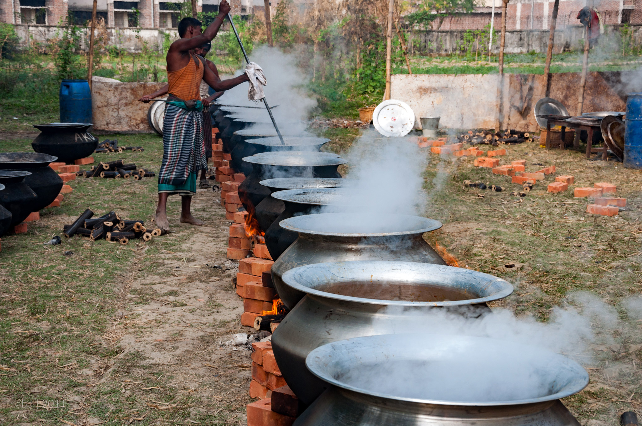 Traditional Mejban (cooking), Chittagong, Bangladesh.